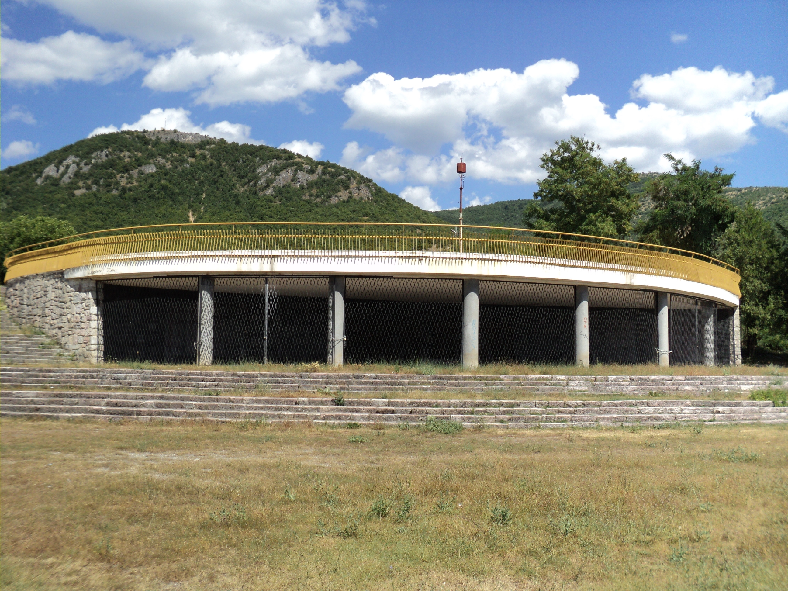 Memorial ossuary of the fallen fighters of the People's liberation war 1941-45 in Kičevo.